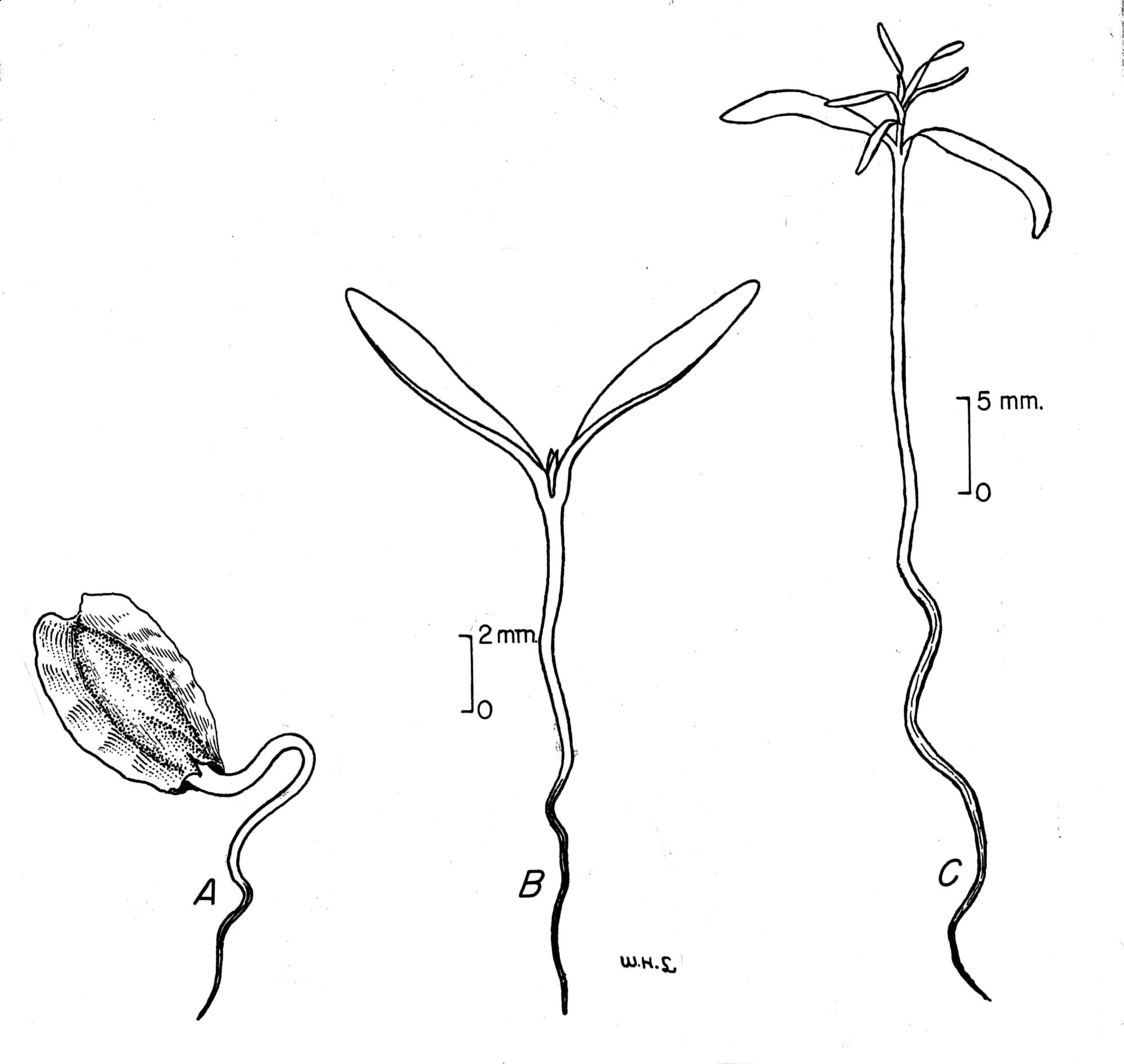 Thuja occidentalis drawing, from seed to seedling.